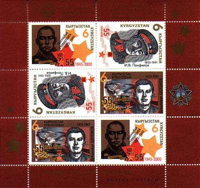 Stamp of Kyrgyzstan